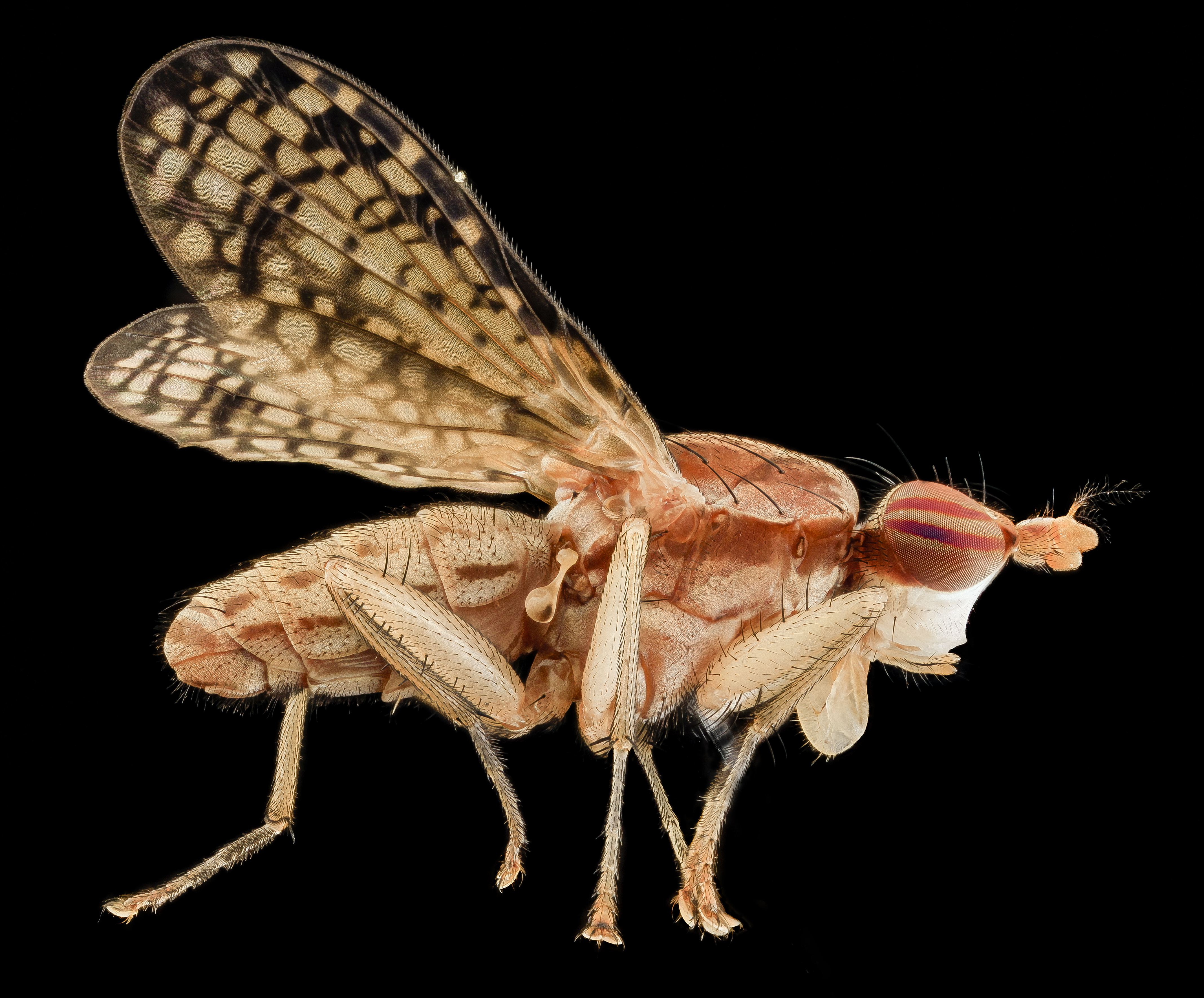 Pyrgotidae - Trypetoptera canadensis - Thanks to Bill Murphy for the determination. This little beauty came to my moth light last night. Not 100% sure of my ID, but someone will correct me I am sure....that said, this family would make since since they are parasites of snails...if you zoom in you can see all sorts of wonderful things going on in the wings. Canon Mark II 5D, Zerene Stacker, Stackshot Sled, 65mm Canon MP-E 1-5X macro lens, Twin Macro Flash in Styrofoam Cooler, F5.0, ISO 100, Shutter Speed 200, link to a .pdf of our set up is located in our profile